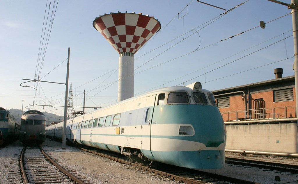 ETR 401 near station Ancona